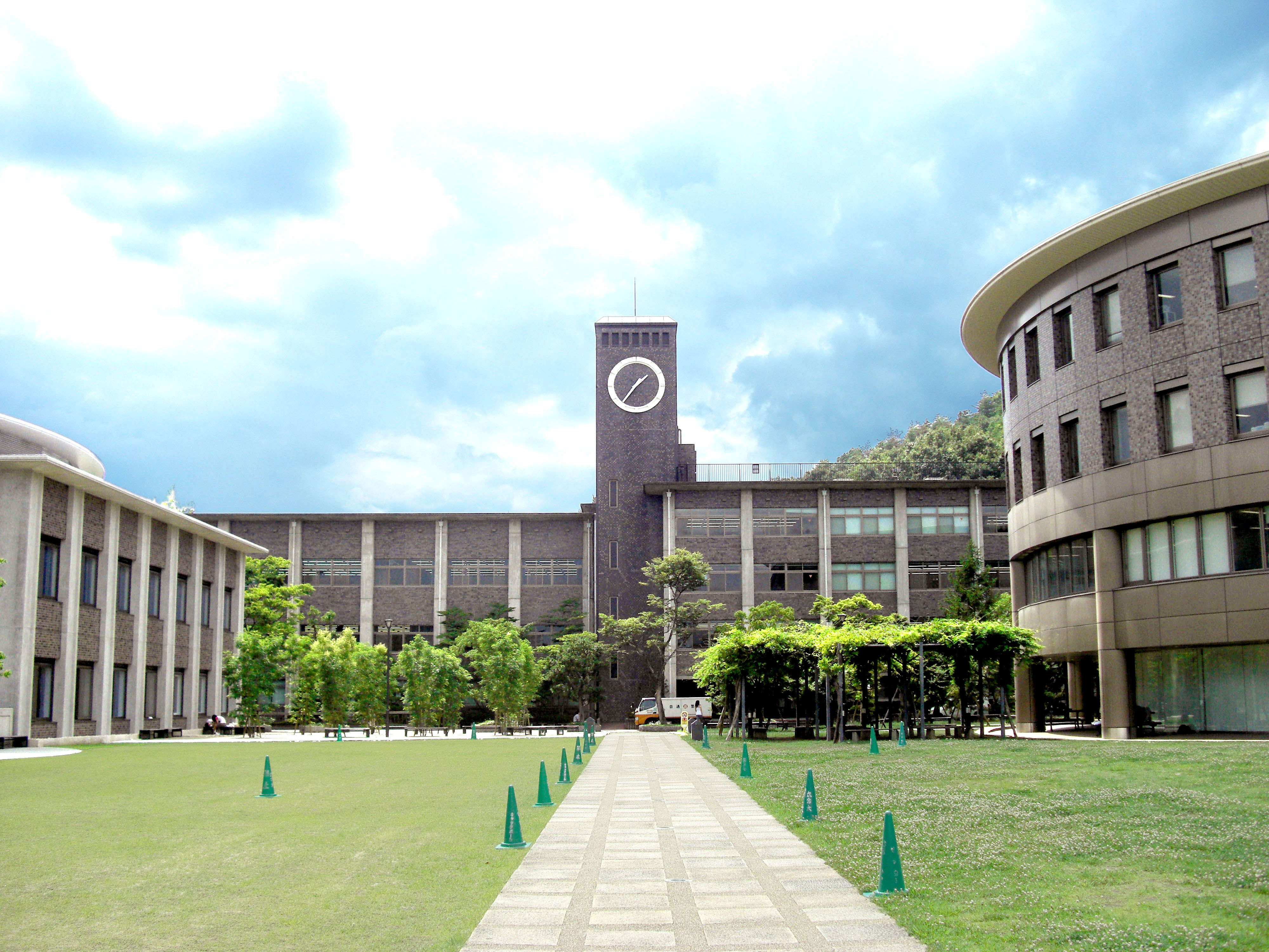 Ritsumeikan University Kinugasa Campus,56-1 Tojiinkitamachi Kita-ku Kyoto-City JAPAN.